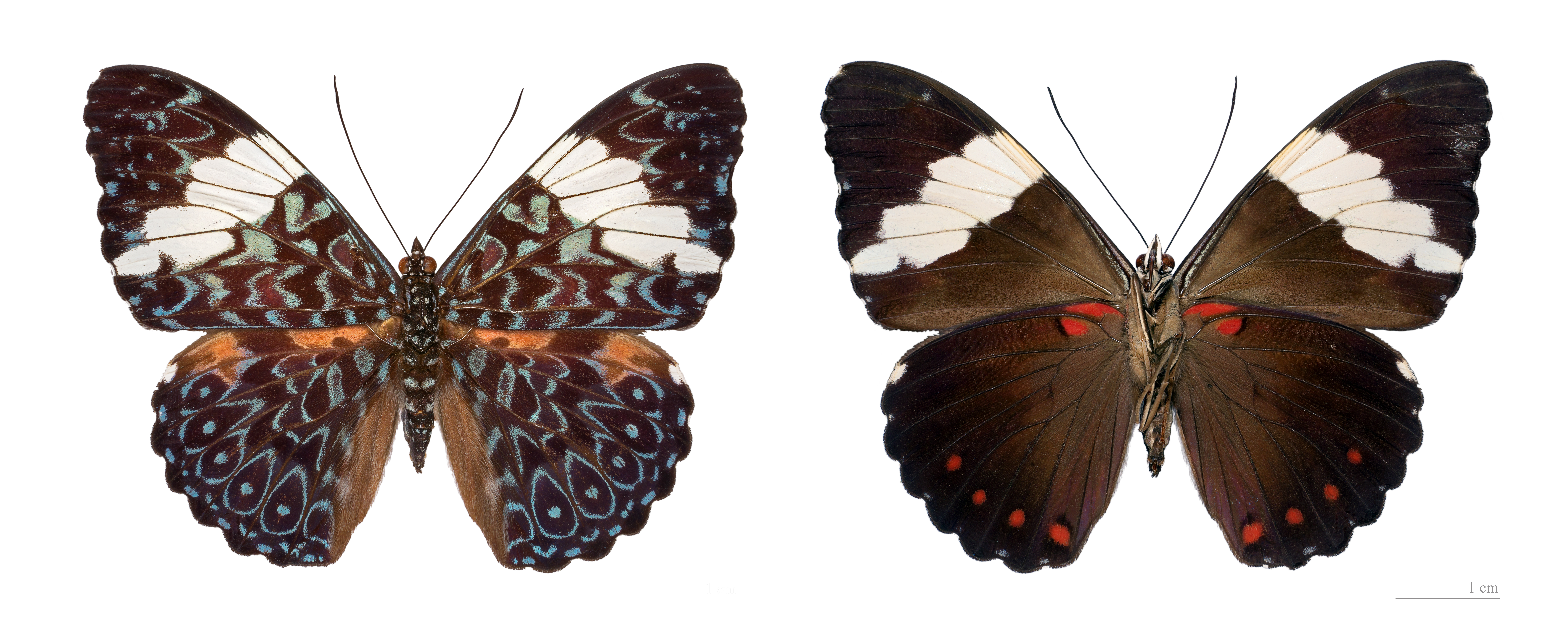 ♂ - Two views of same specimen Locality : Route de Kaw, PK38, French Guiana.